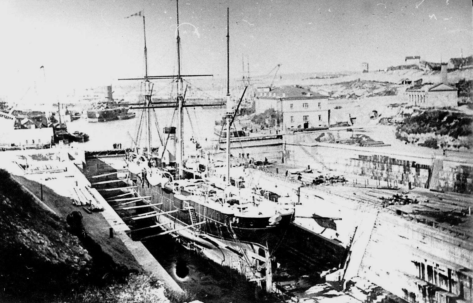 Imperial Russian cruiser Pamyat' Merkuriya (until Apr. 1882 - Yaroslavl', after 1907 - blockship No.9).